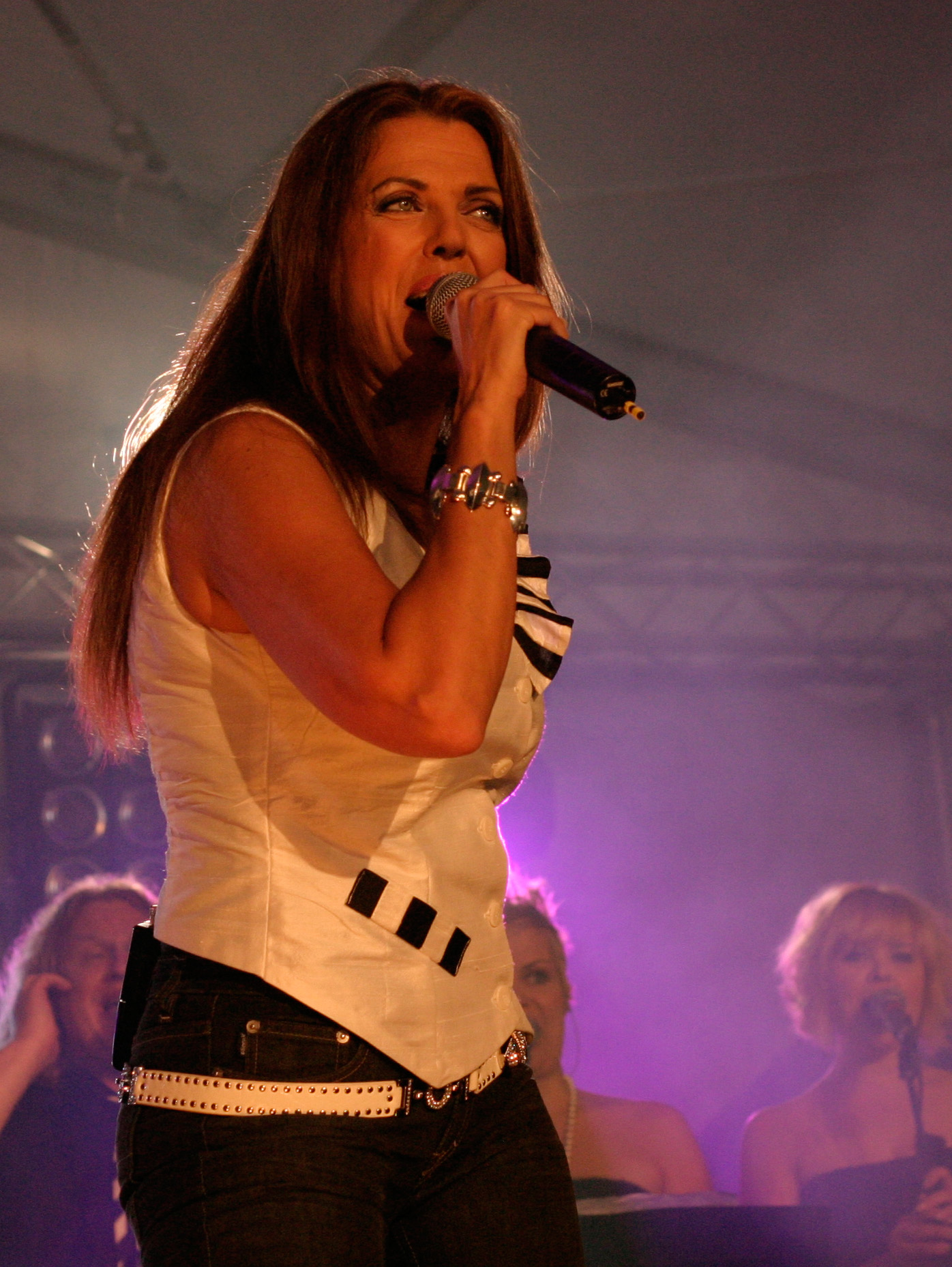 Eini in Vihreät Niityt music festival.